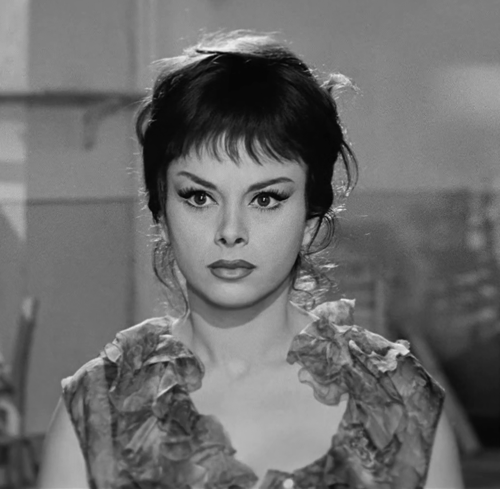 film frame from the Italian movie Adua e le compagne